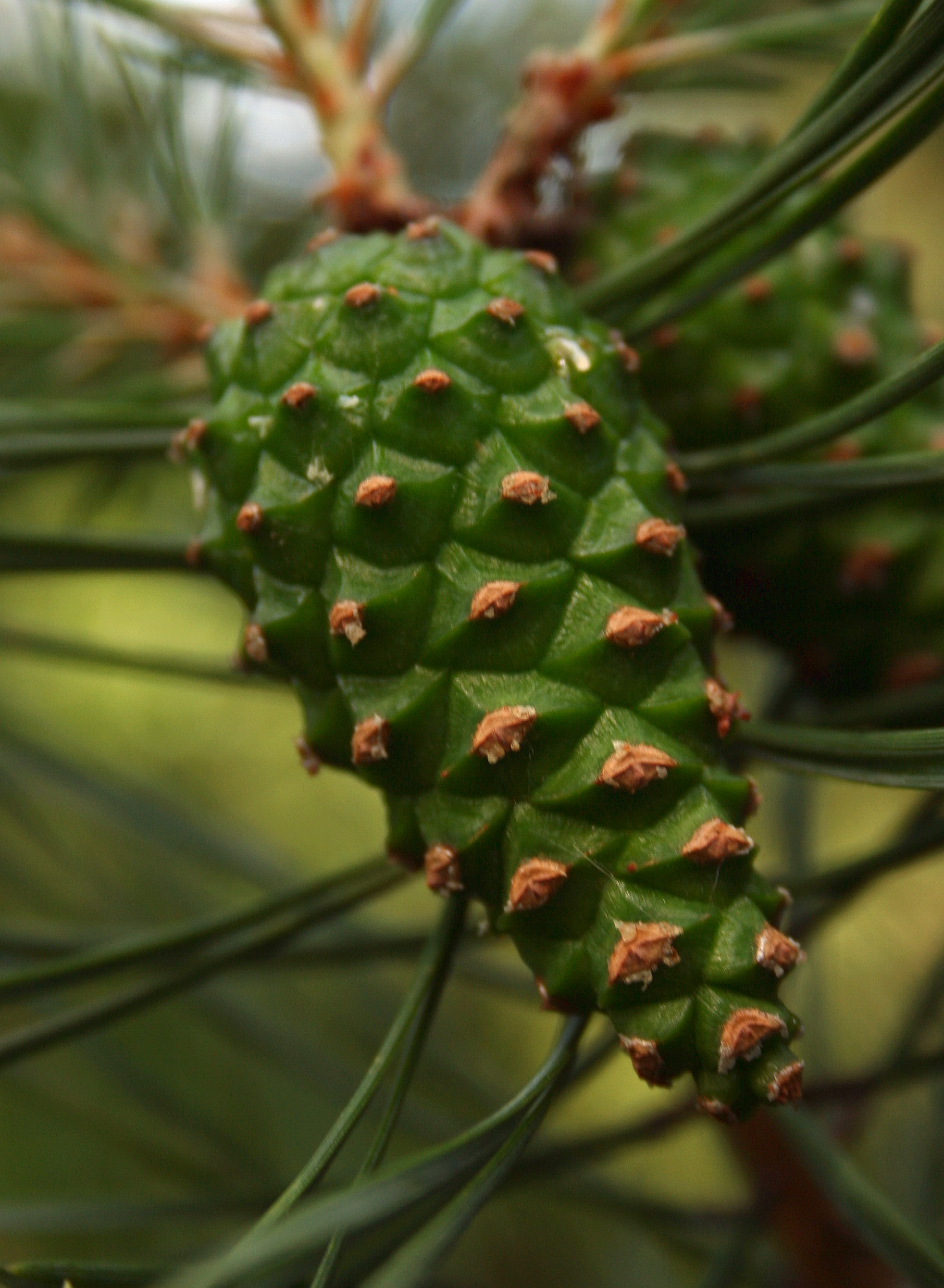 The Scots Pine - cone (Pinus sylvestris), near Boronów, Poland